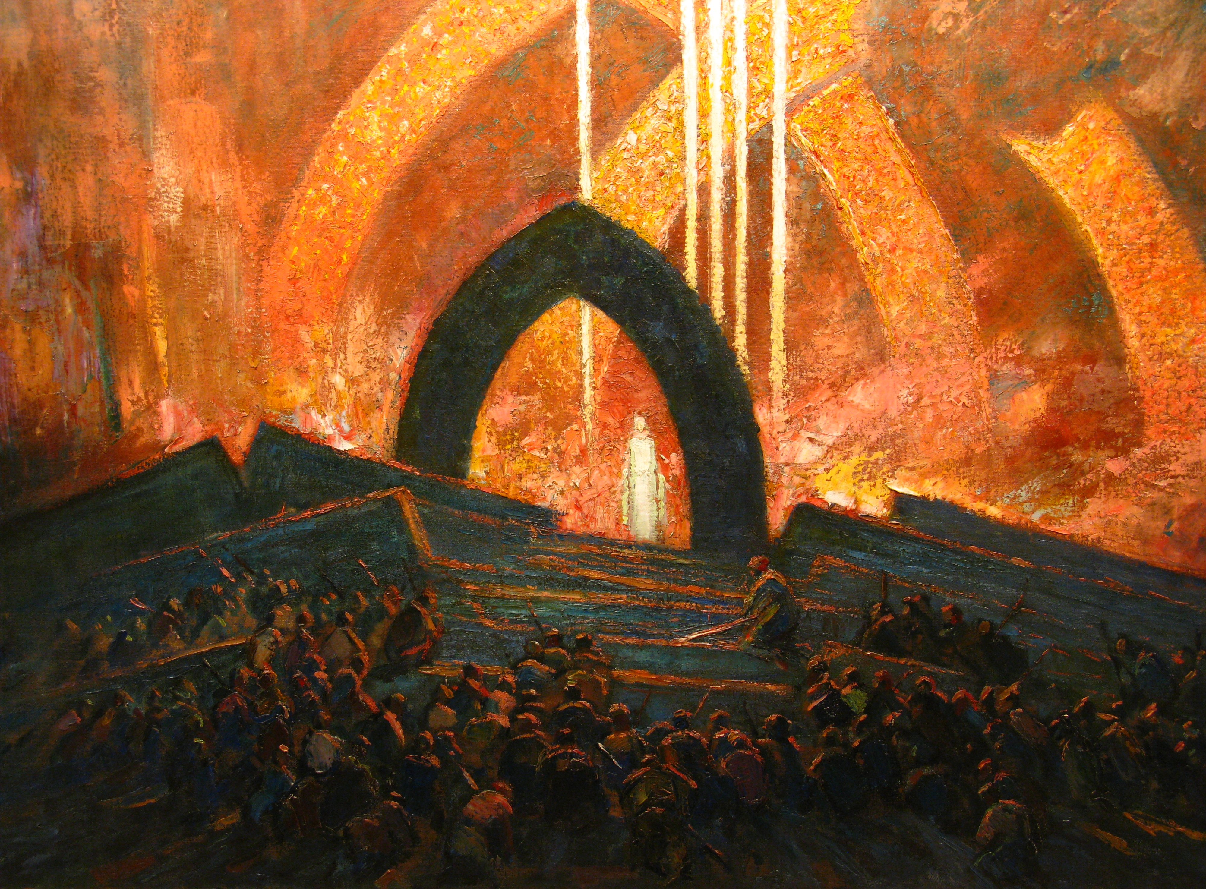 Detail from: Panos Aravantinos Stage Set, 1928 oil on canvas